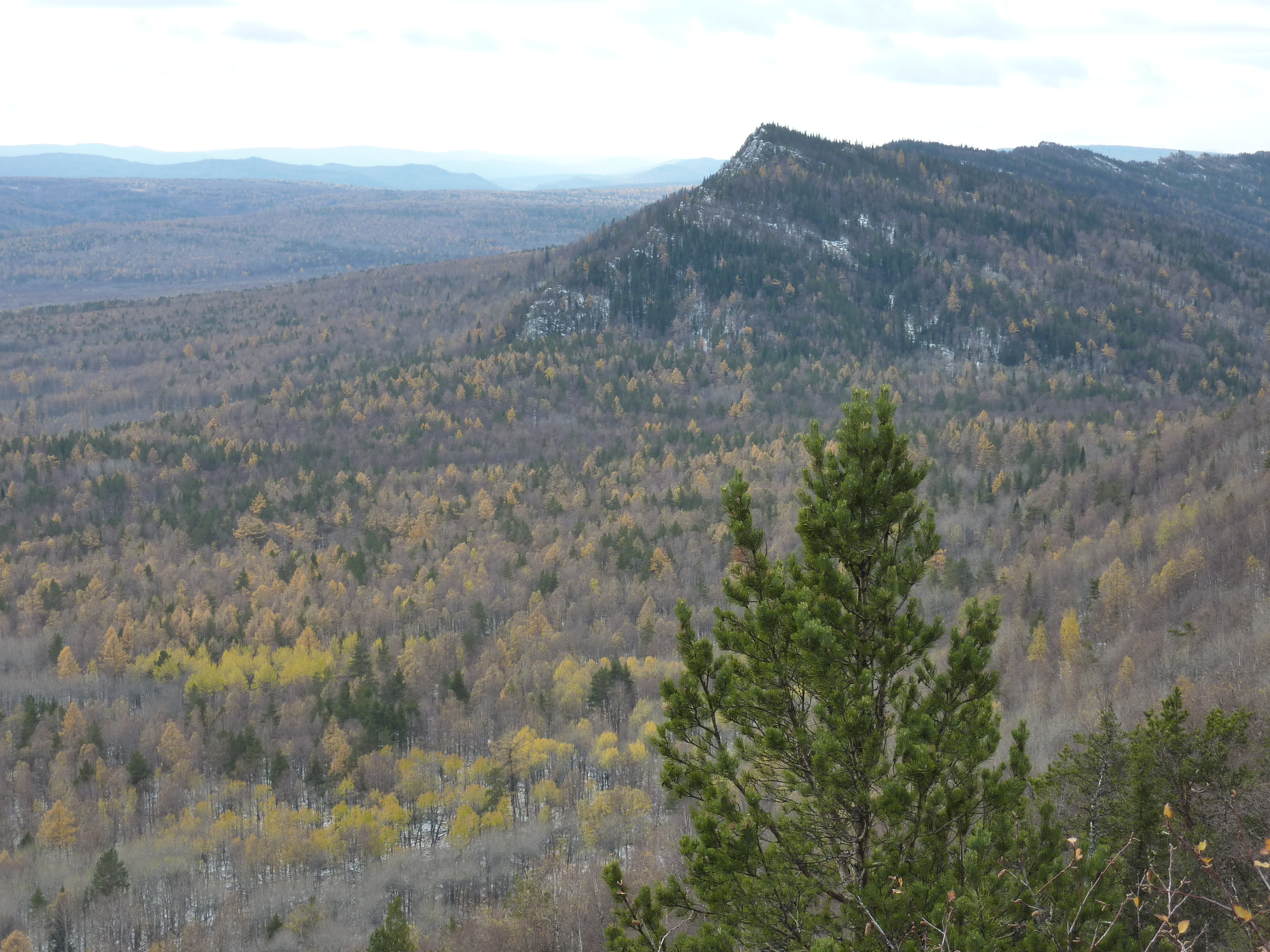 range Bacty